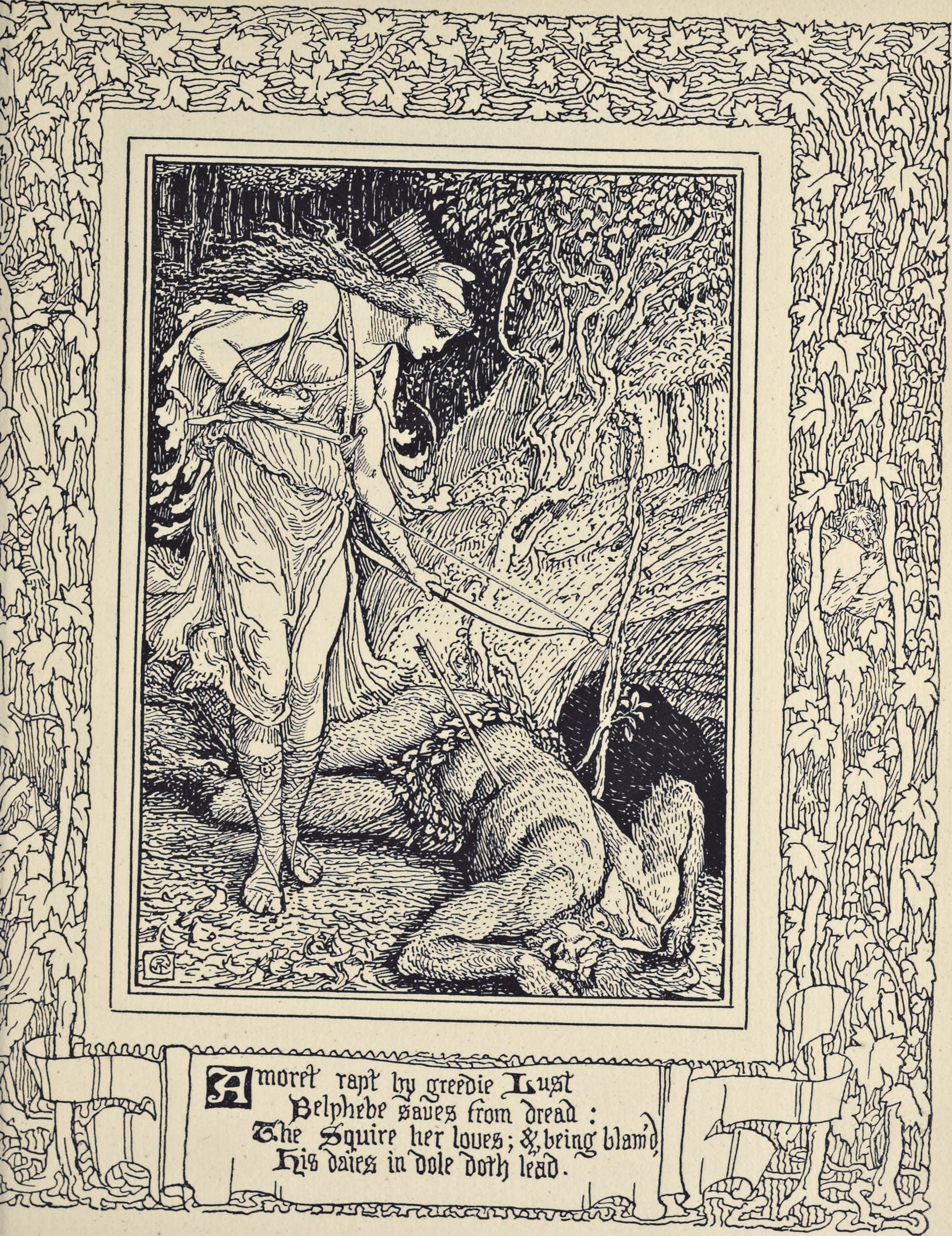 Title: Spenser's Faerie queene. A poem in six books; with the fragment Mutabilite Year: 1895 (1890s) Authors: Spenser, Edmund, 1552?-1599 Wise, Thomas James, 1859-1937 Crane, Walter, 1845-1915 Subjects: Publisher: London, G. Allen Text Appearing Before Image: ' Text Appearing After Image: '